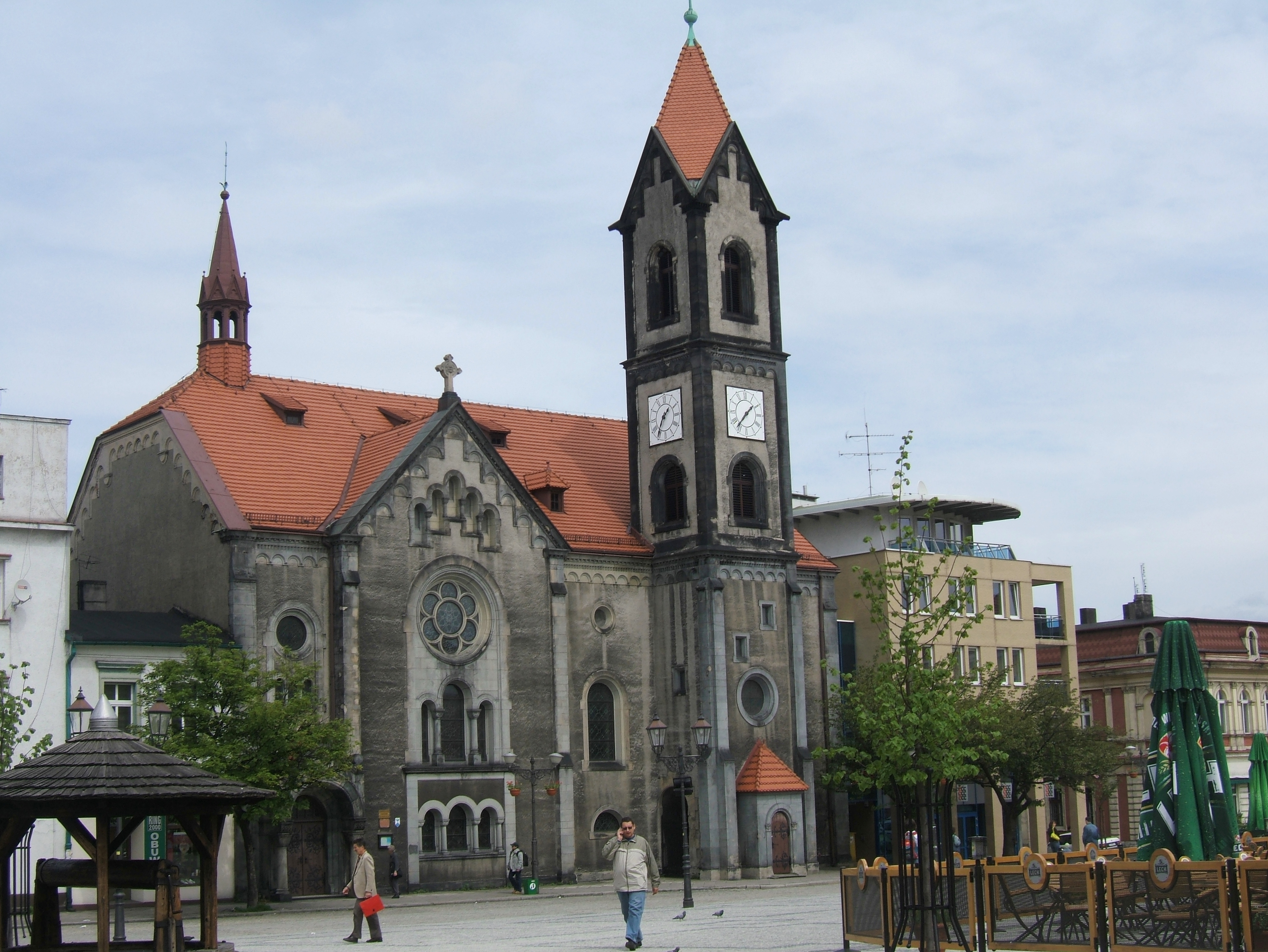 The neoromanesque protestant church in Tarnowskie Góry, near the market place